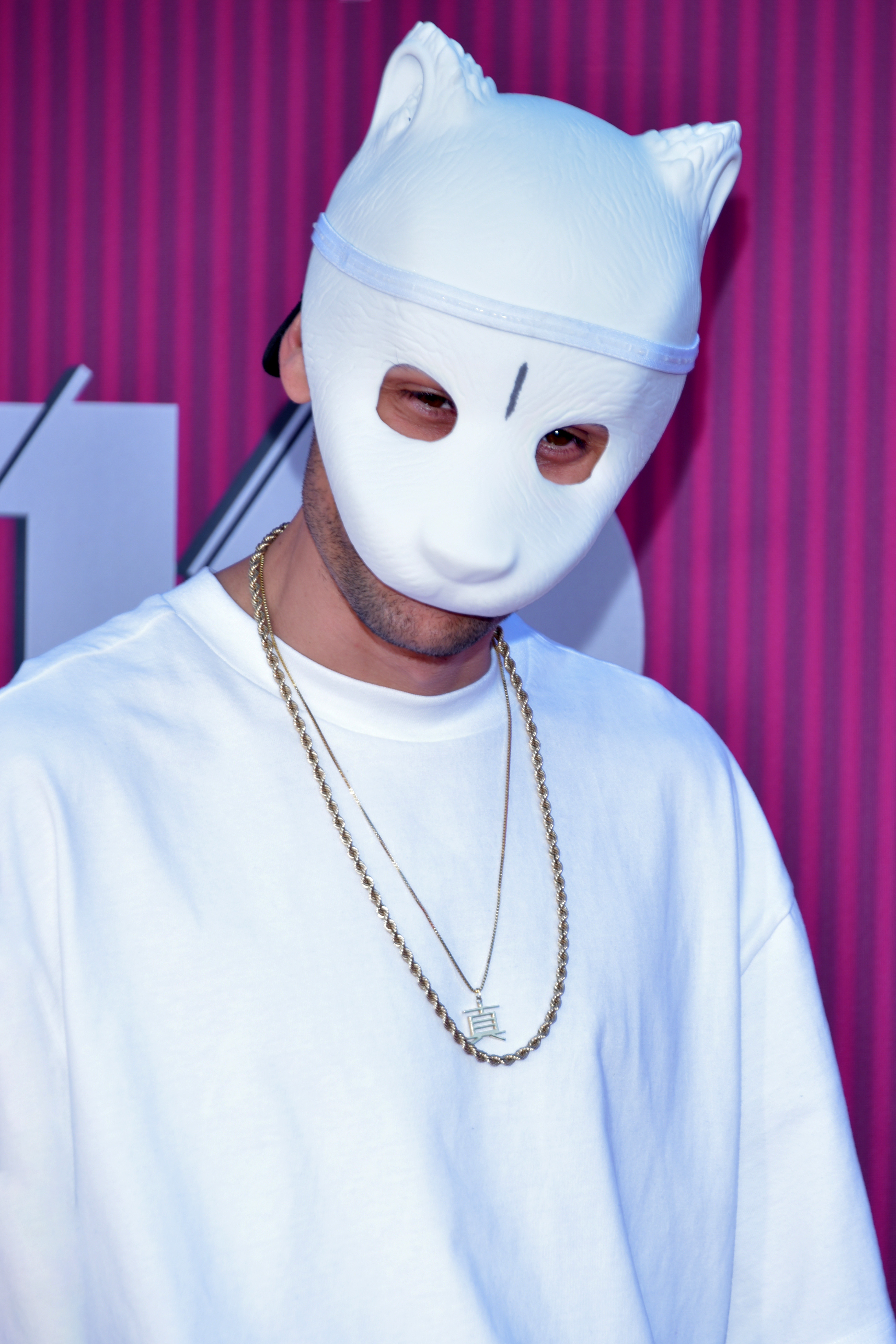 Cro at the 2019 iHeartRadio Music Awards in Los Angeles California on March 14, 2019 - Photo by Glenn Francis of